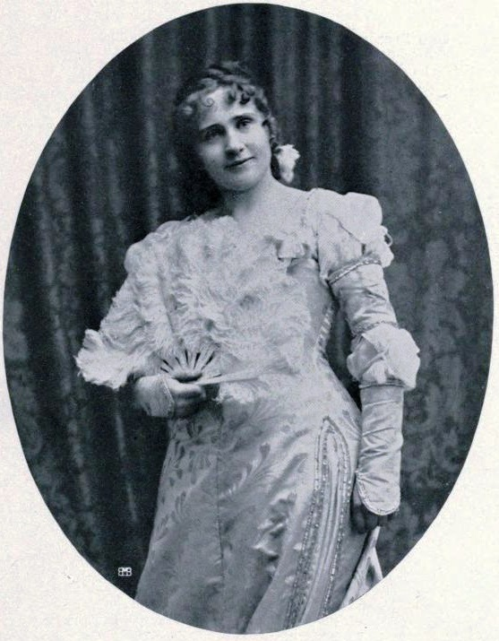 Portait of Danish opera singer Emilie Ulrich née Boserup (26 November 1872 – 31 January 1952)